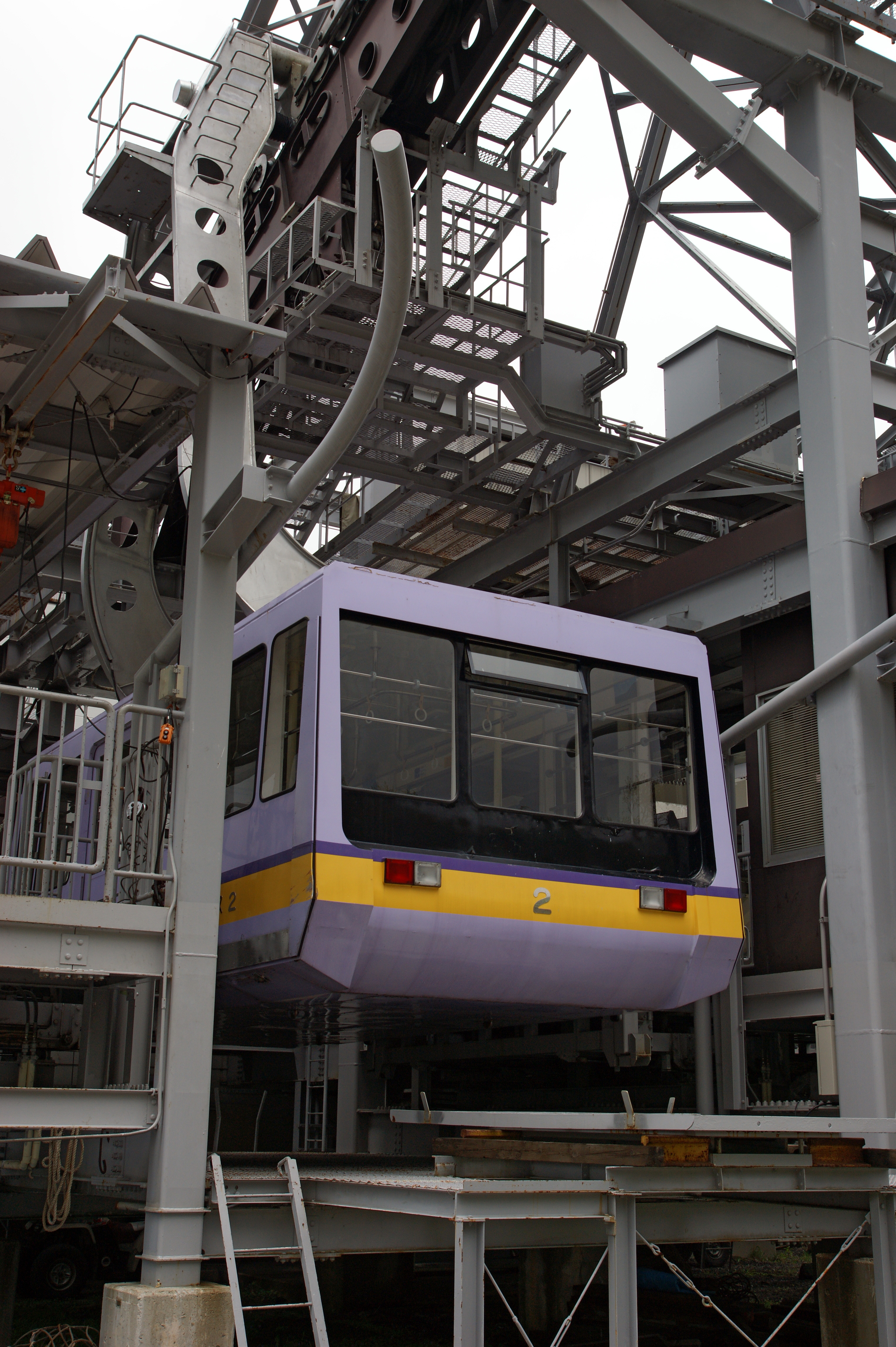 Pilatus Tateshina Rope Way in Chino, Nagano prefecture, Japan